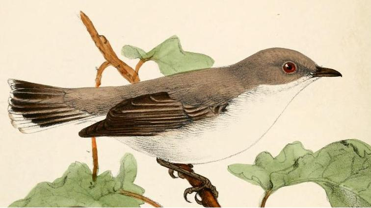 Plain Gerygone (Gerygone inornata, cat.)